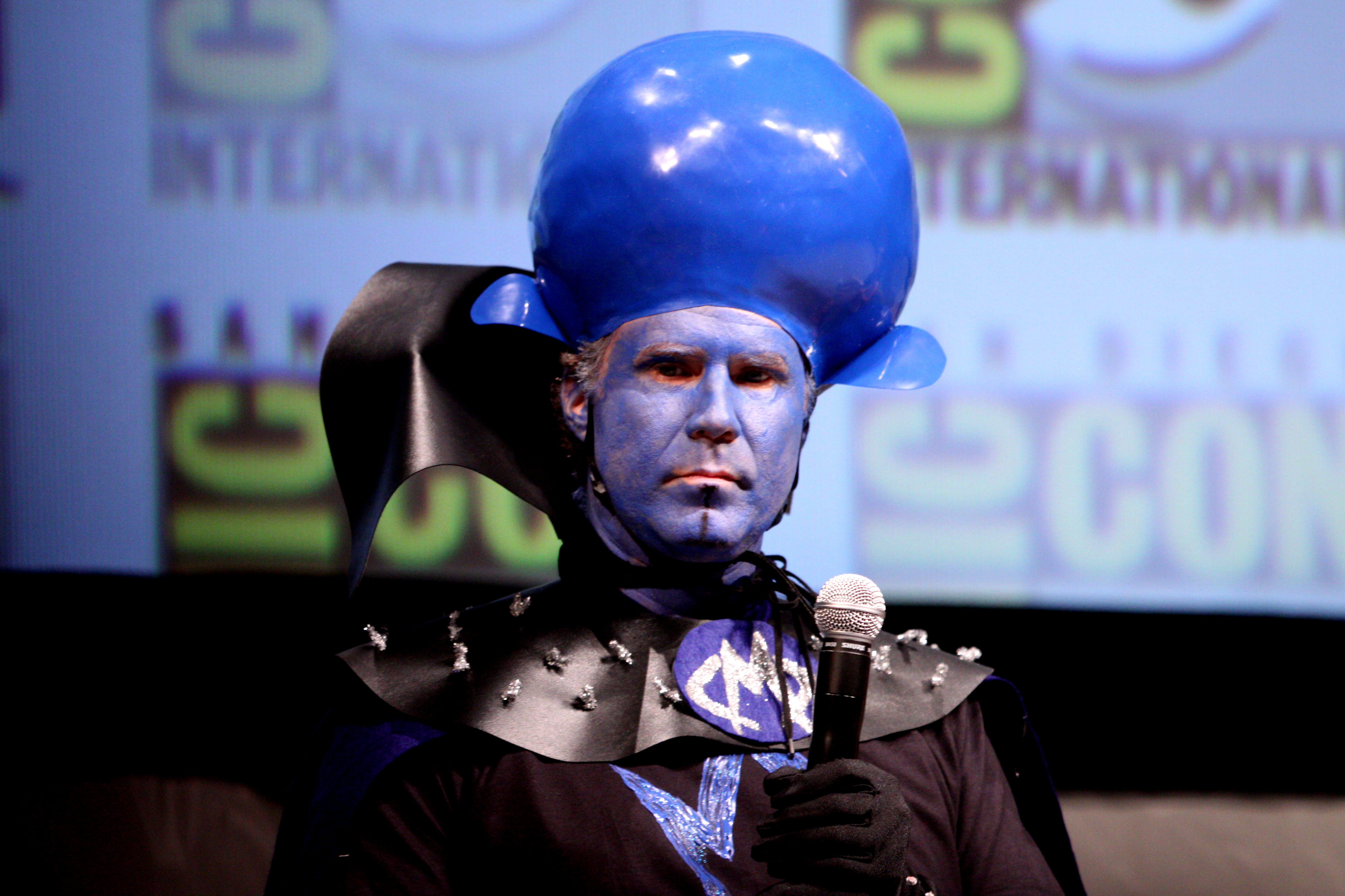 Actor Will Ferrell dressed as MegaMind on the MegaMind panel at the 2010 San Diego Comic Con in San Diego, California.